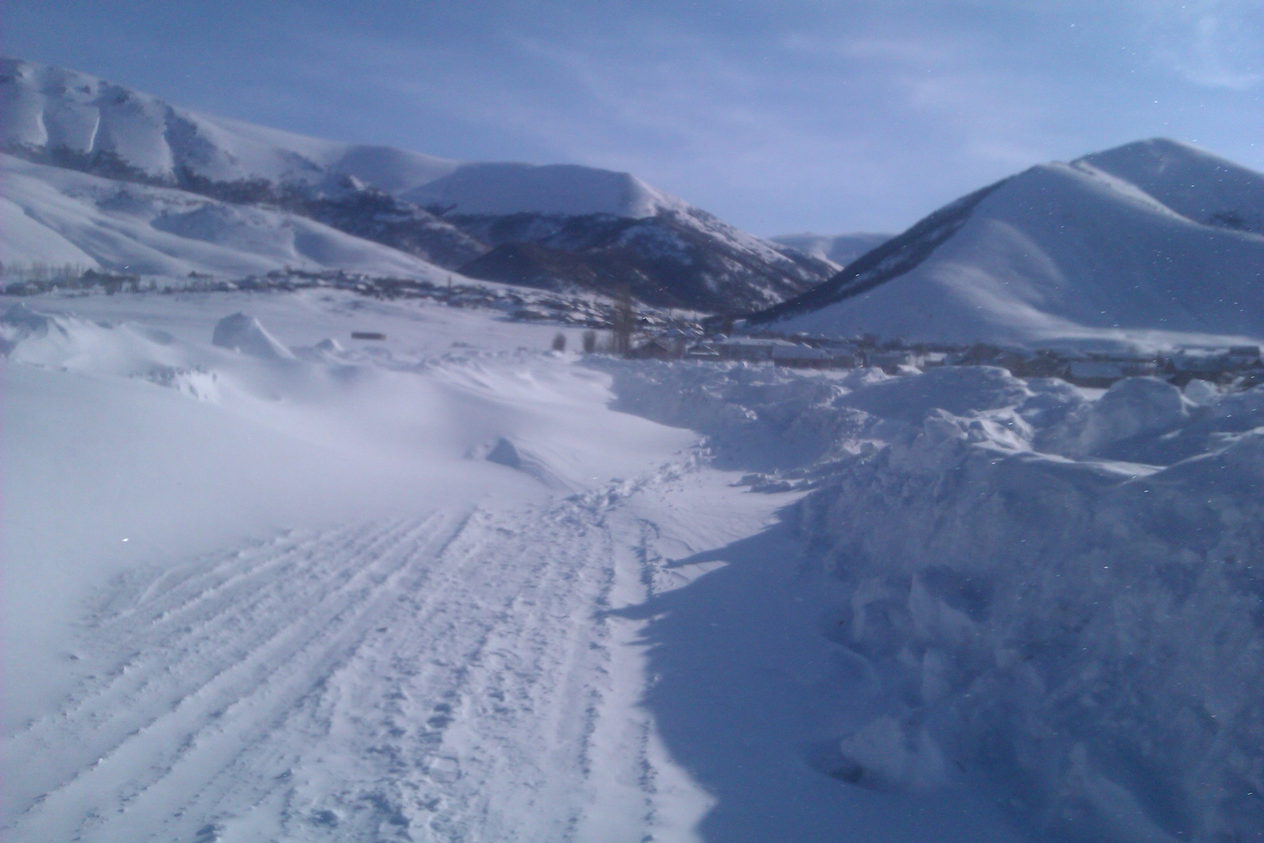 asd